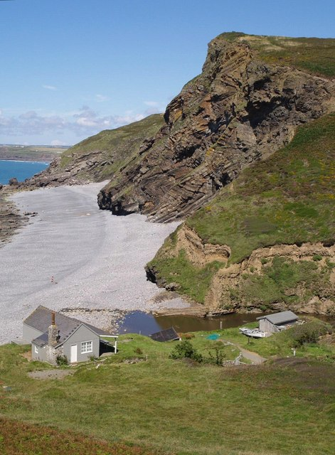 Millook. A view from the lane to Dizzard, showing 411264 in Bridwill point, and the building shown in 501024. By the hut on the right is 500938. Further along the shore is Penhalt Cliff, above Foxhole Point.